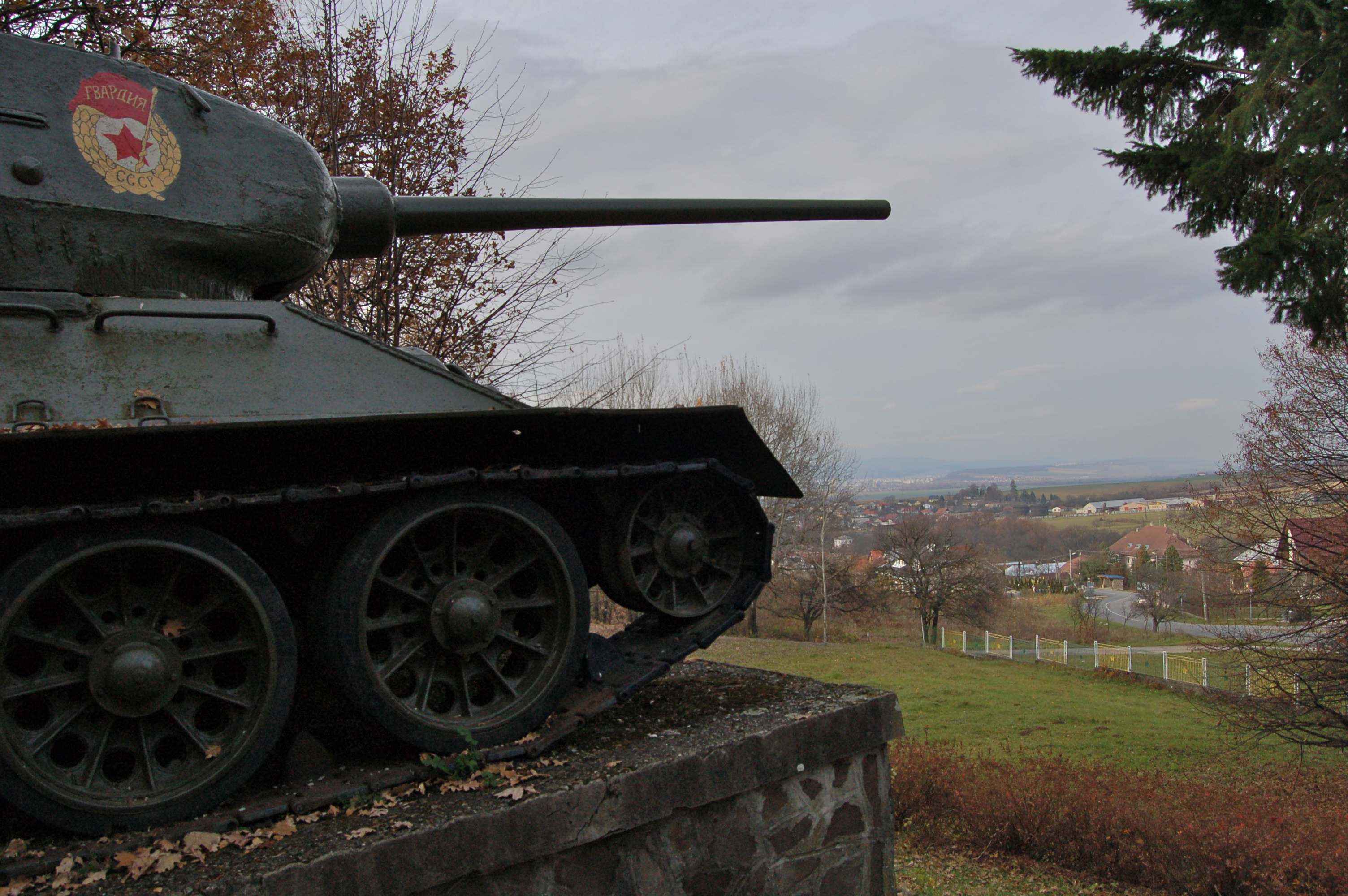 Tank in the Skároš's park. On the right side the village.